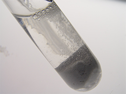 The reaction between Strontium Carbonate and Nitric acid.